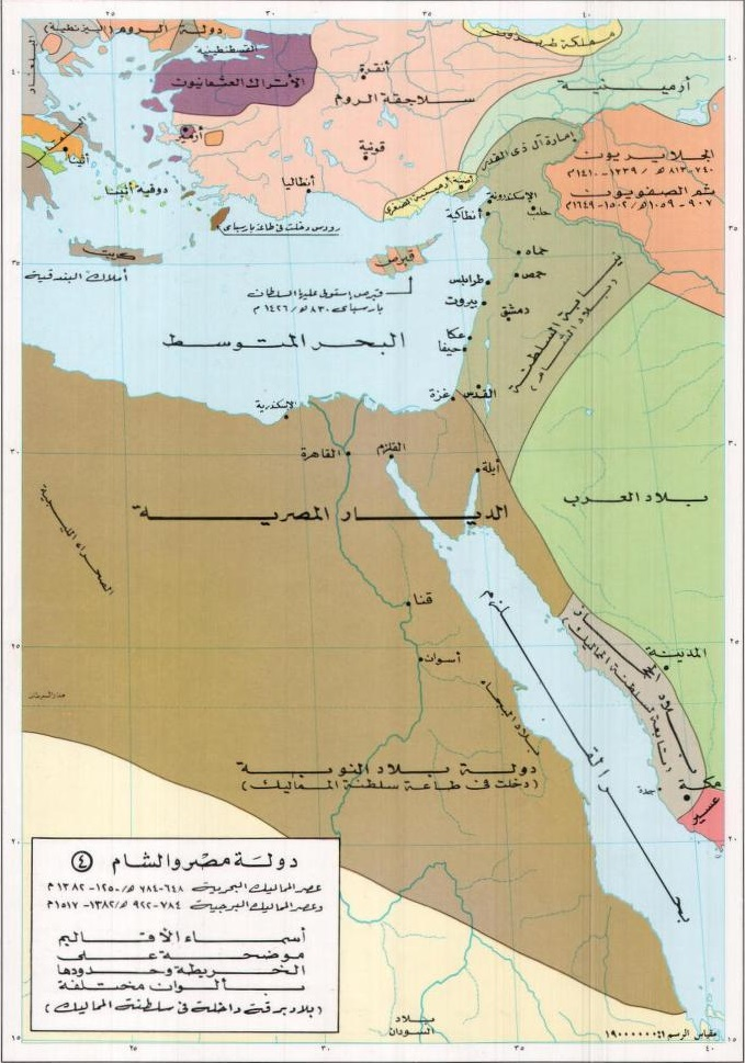 Mamluk Sultanate of Egypt and the Levant during the Bahri and Burji Dynasties.